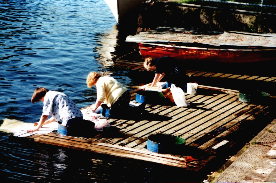 Women laundering in Tampere, Finland